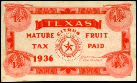 1936 Texas state revenue stamp for tax on citrus fruit.